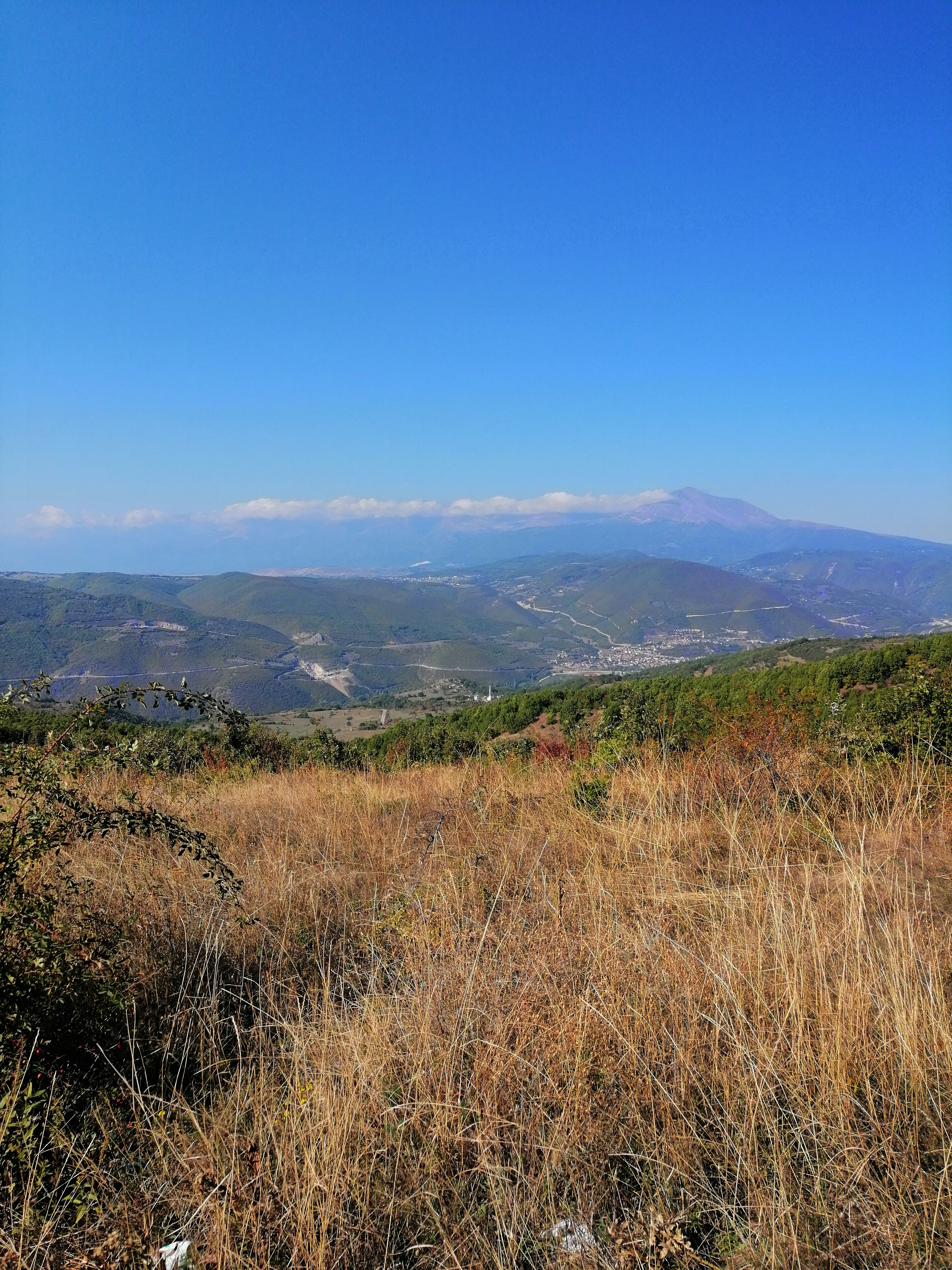 View of the village Blace, Čučer Sandevo